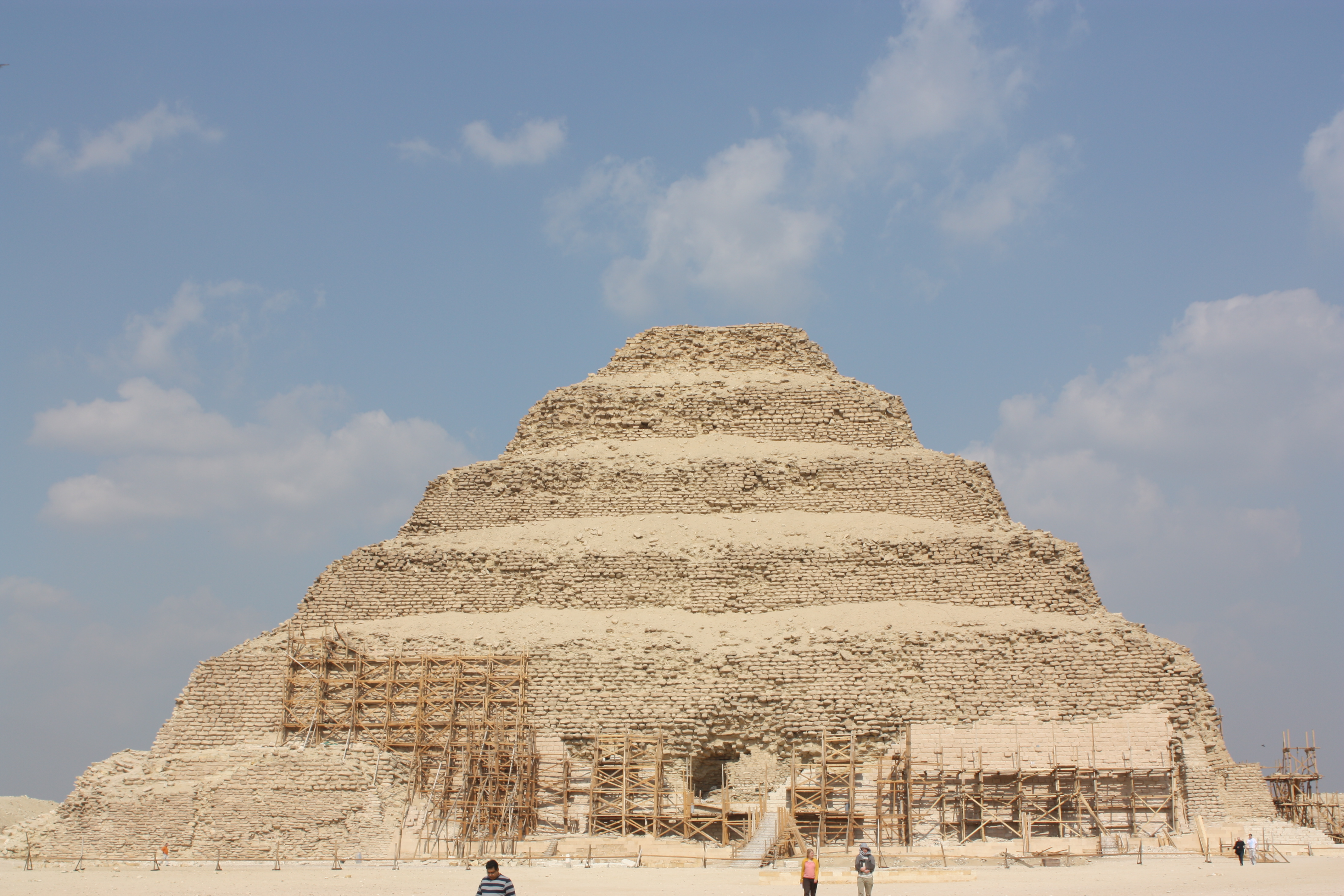 The Pyramid of Djoser in Saqqara, Egypt.